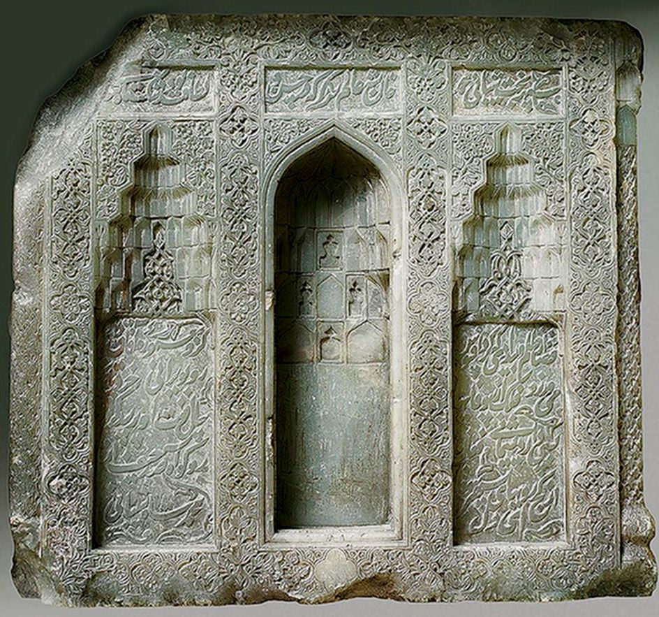 Tomb of Sheybani khan